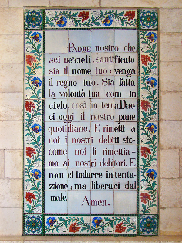 Church of the Pater Noster, Mount of Olives, Jerusalem. Lord's Prayer in Italian.